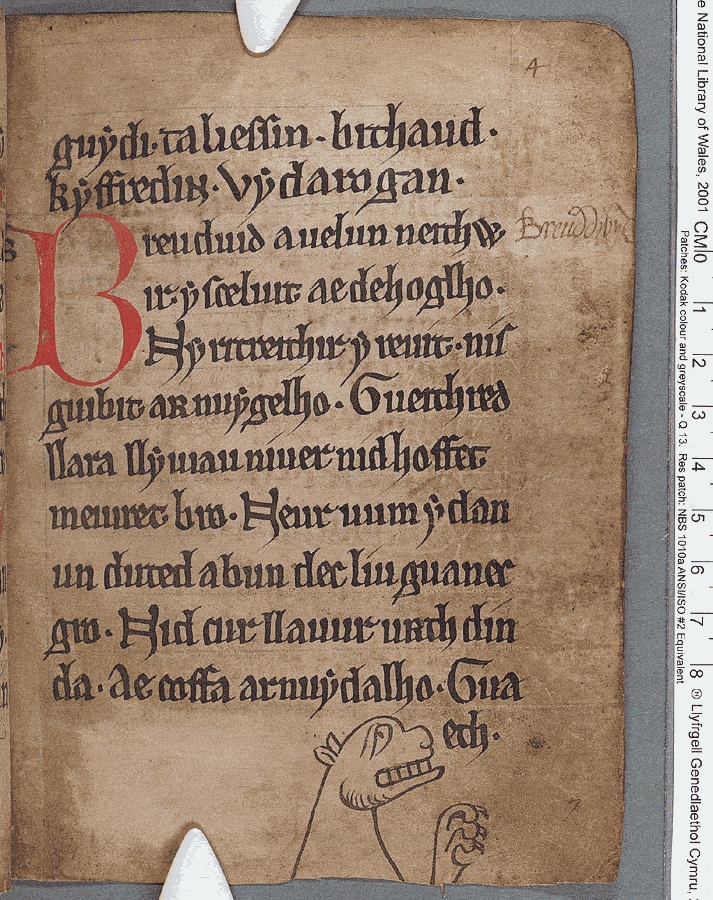 A page from the Black Book of Carmarthen, thought to be the earliest surviving manuscript written solely in Welsh. The manuscript contains mainly Welsh Poetry.